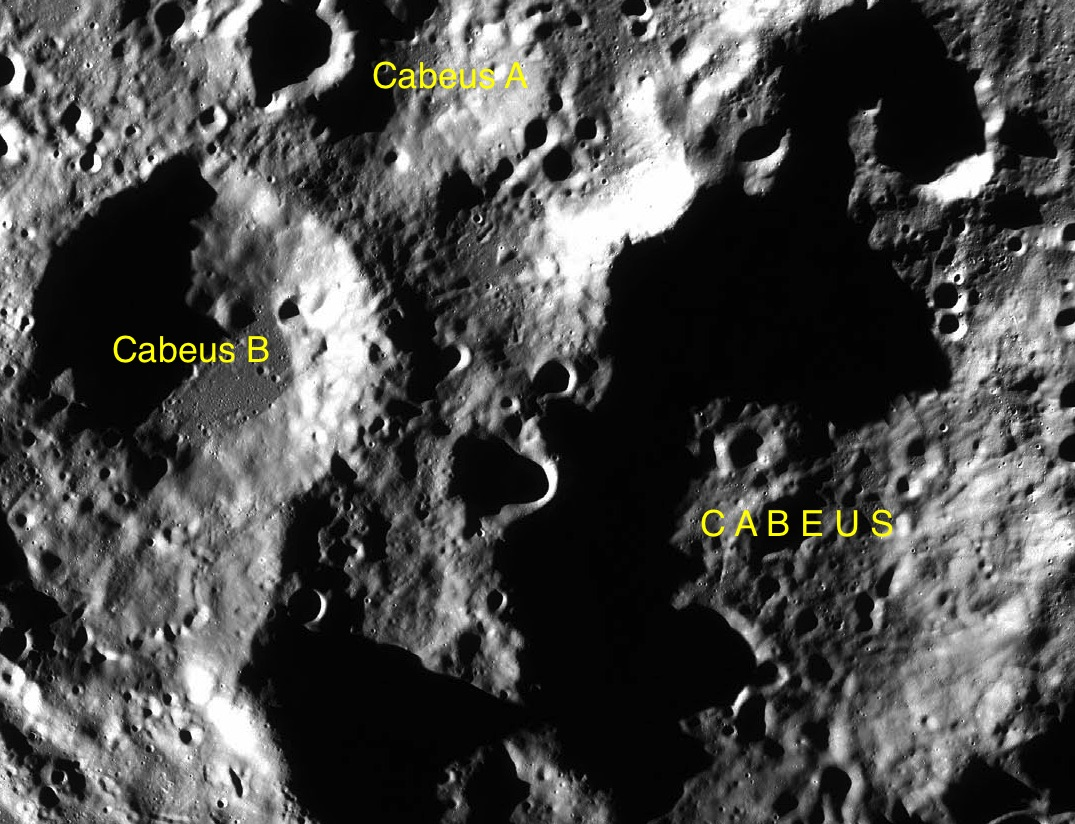 Part of the chart LAC-144 used for the presentation.